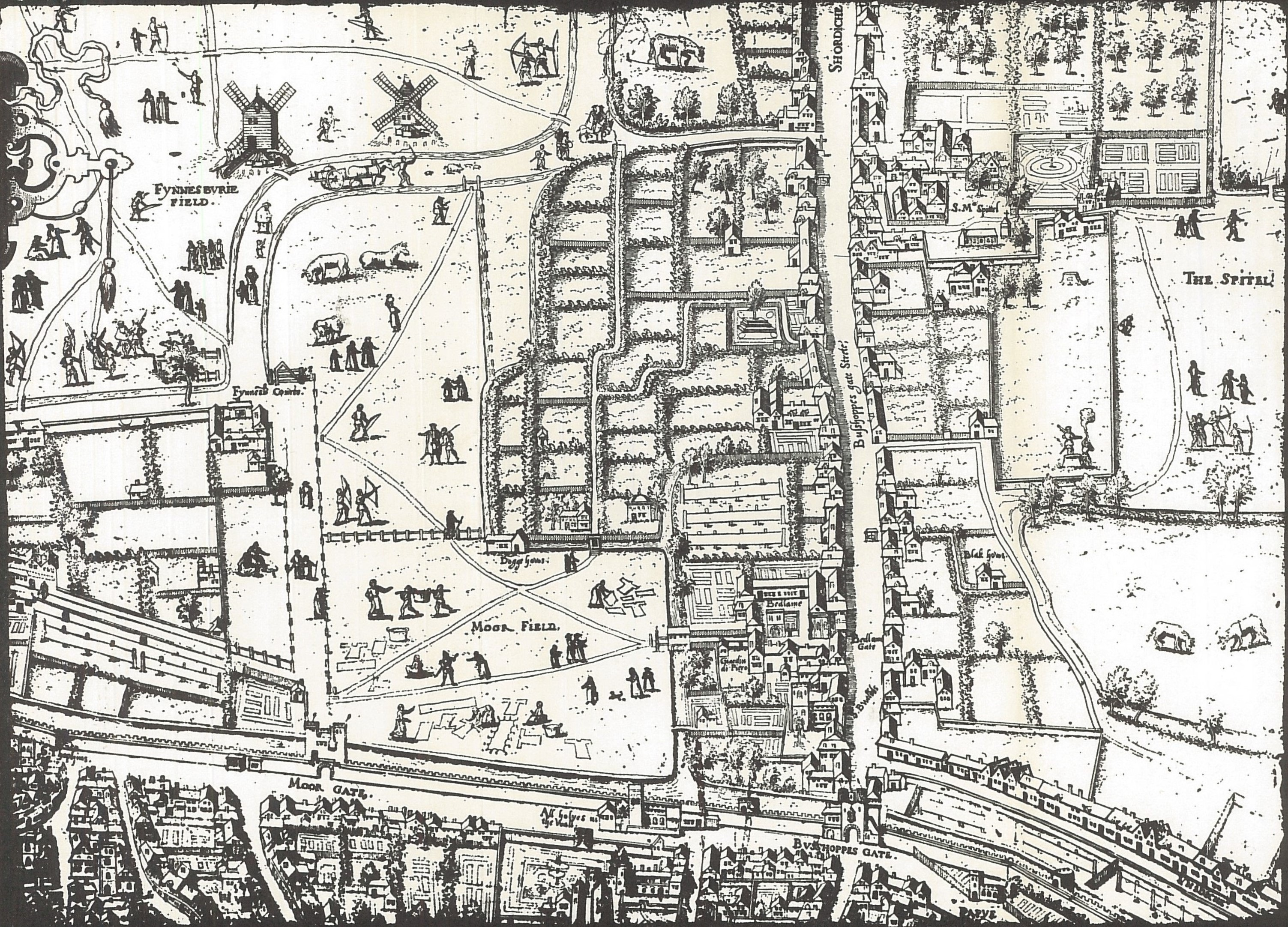 Plate from the "Copperplate" map of London, 1550s, showing the Moorfields area